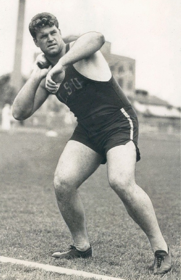 1933 Jack Torrance LSU Tigers Shot Put Press Photo